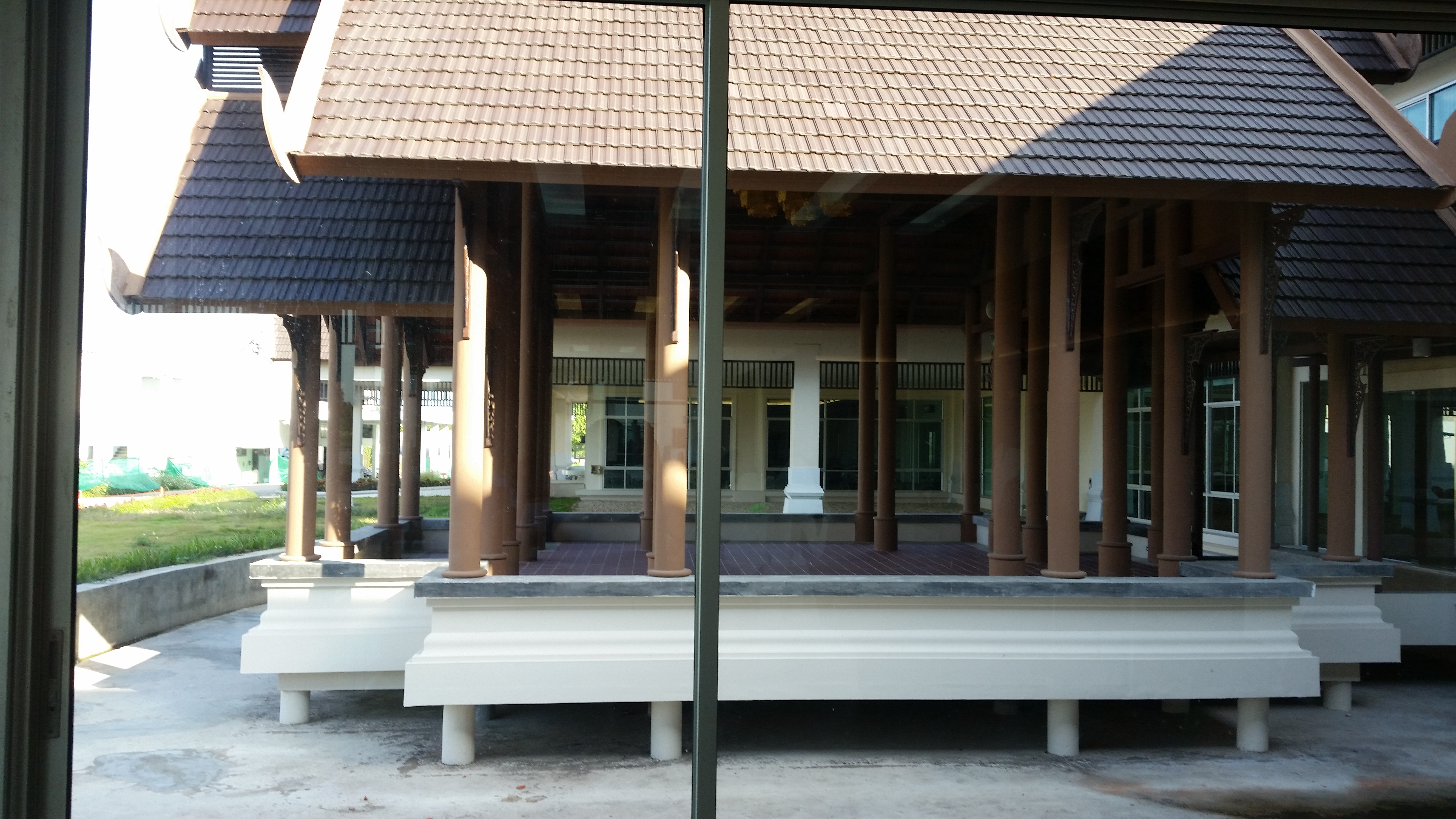 This pavilion in the new Lampang airport, Thailand, will have water later